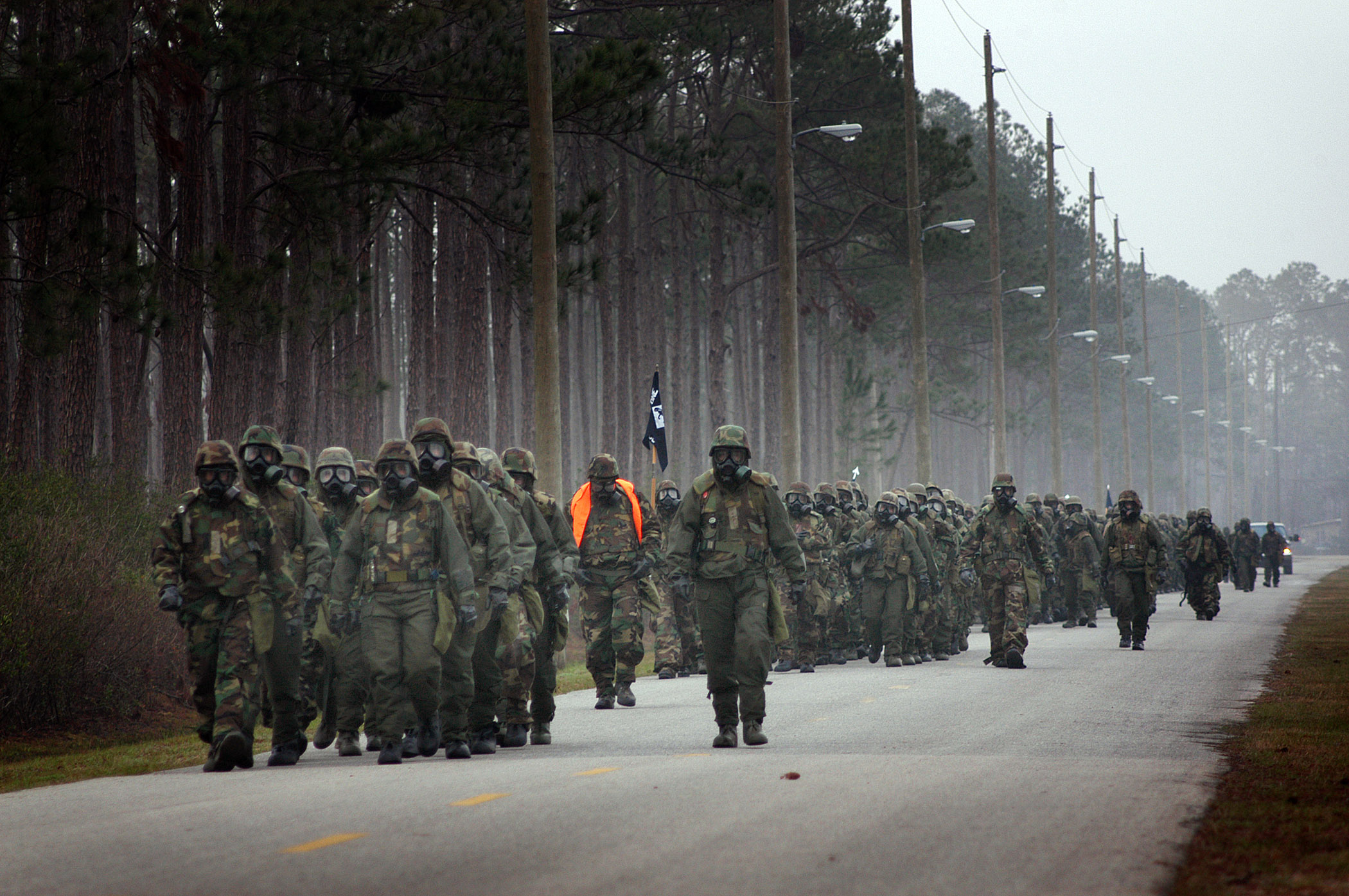 060203-N-3879H-002 Gulfport, Miss. (Feb. 3, 2006) - Seabees assigned to Naval Mobile Construction Battalion One (NMCB-1) participate in a battalion march at Construction Battalion Center, Gulfport. NMCB-1 seabees are preparing for their upcoming field exercise, "Operation Steel Shanks," which will sharpen the battalion's combat and contingency construction capabilities. U.S. Navy photo by Journalist 1st Class Dennis J. Herring (RELEASED)